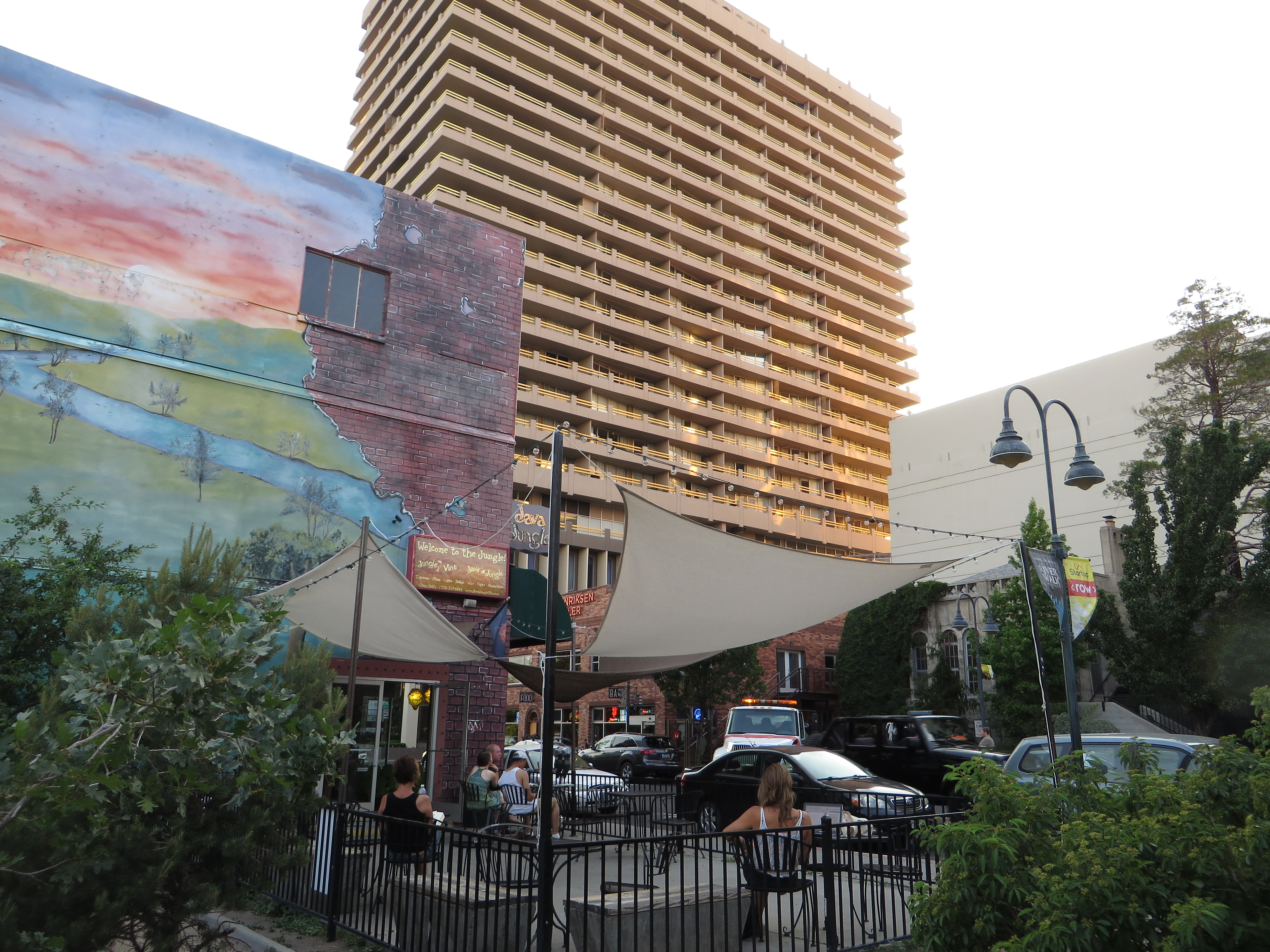 View of Reno, Nevada. Arlington Towers in the background.